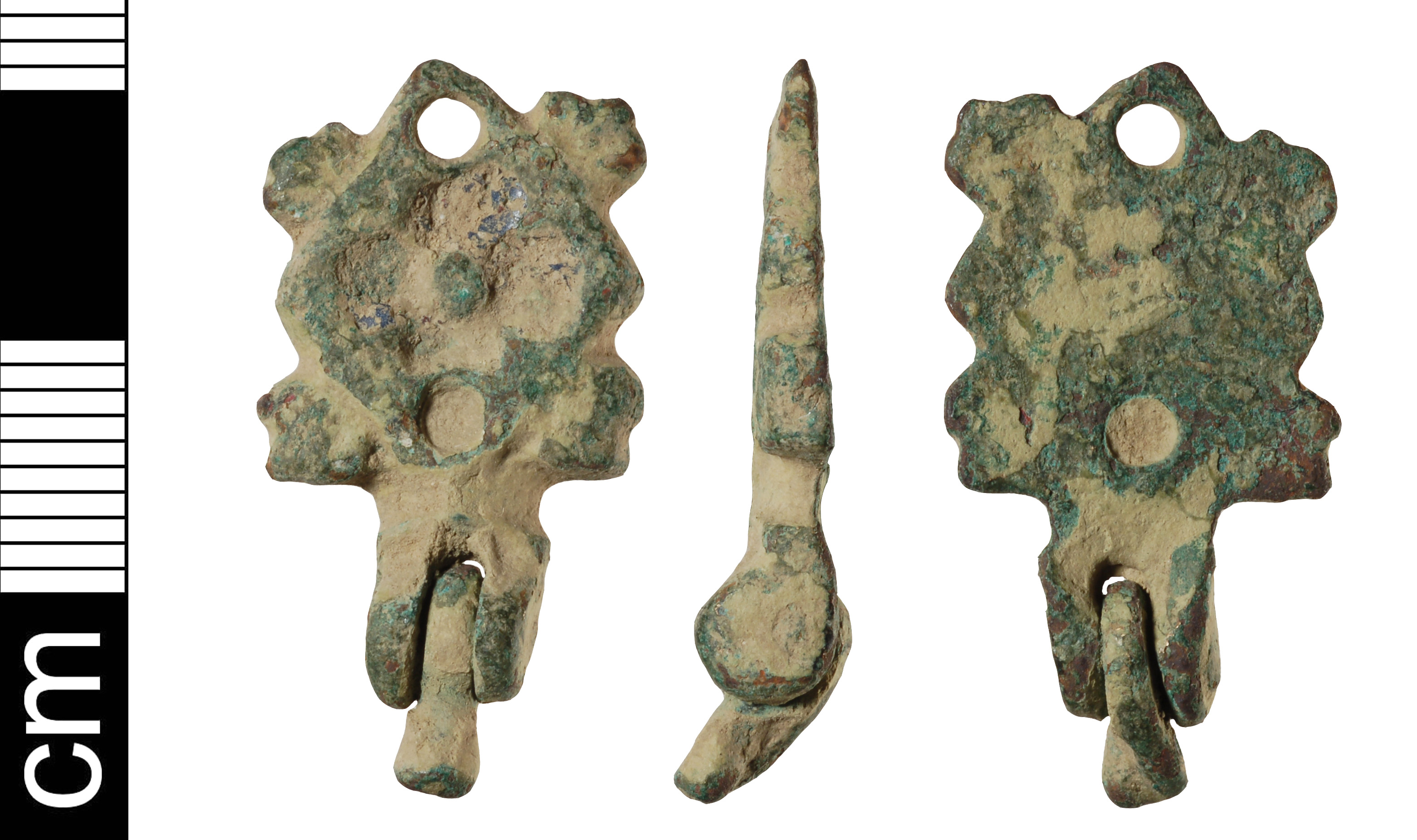 A copper-alloy harness pendant suspension mount of Medieval date. The central feature of this mount is a lozenge-shaped central cell with a quatrefoil setting, in which traces of dark blue enamel surround a moulded central pellet. A trilobate moulding projects outwards from the centre of each side of this lozenge. There are two rivet holes, one located within the apex loop, the other perforating the mount at the bottom point of the lozenge. The hanger projects from the base and comprises a pair of rounded lugs with a central gap, in which is contained part of the pendant's loop, held in place by an axis bar. Length: 29.2mm; width: 15.2mm; thickness: 6mm; weight: 4.43g. A very similar mount is PAS record BH-4BC287, which was found nearby and is clearly related. No published parallel could be found for these pieces, but their form suggests a 13th to 14th century date.